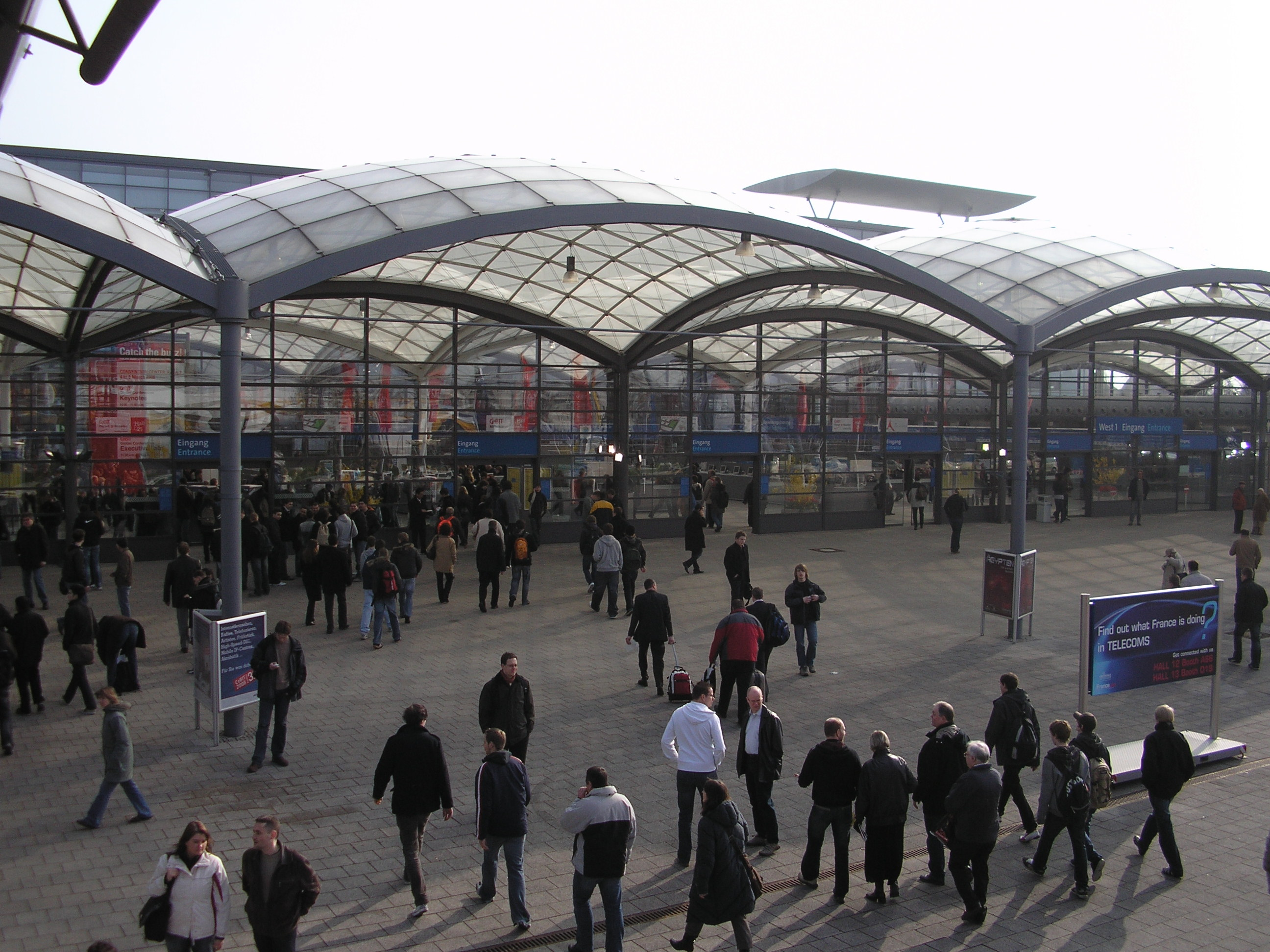 CeBIT 2008. Main Entrance of the Halle 13.